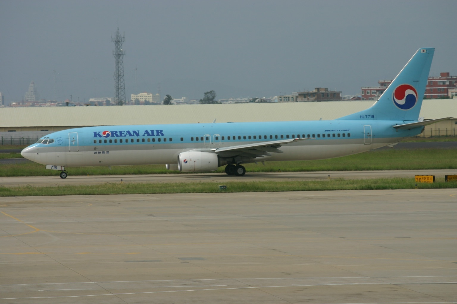 At Xiamen